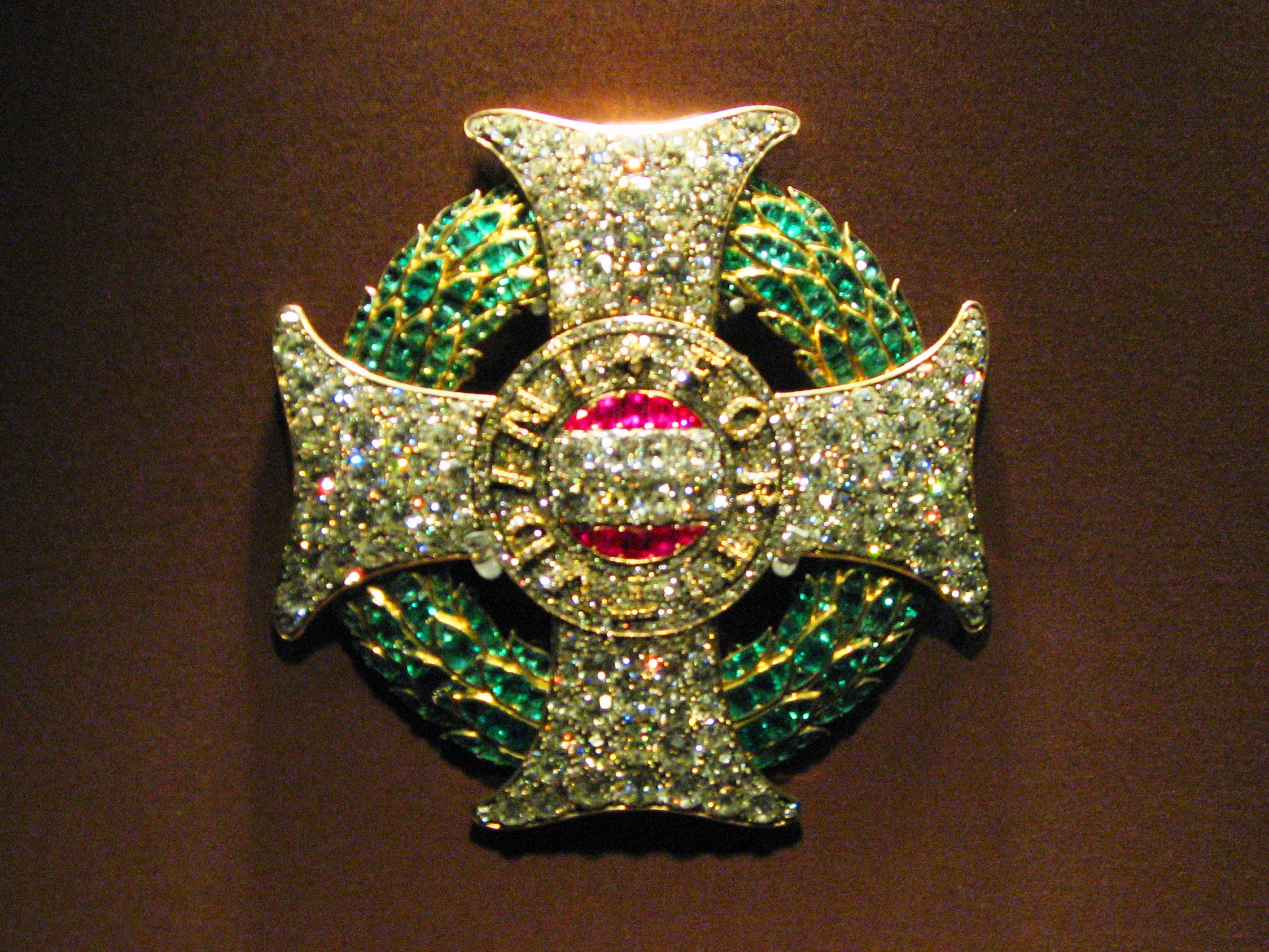 Grand Cross of the Military Order of Maria Theresa; Artist: J. A. Schöll, Goldsmith. Height 10.6 cm, breadth: 10.6 cm. signature: J.A. Schöll, of Frankfurt working in Vienna, 20 December 1765. Inscription, Fortitude. Comprised of Gold, with Silver, Gold, and Diamonds, Rubies, and Emeralds. Located at the Art Museum Vienna, Secular Treasure, Inventory # SK WS XIa 16.